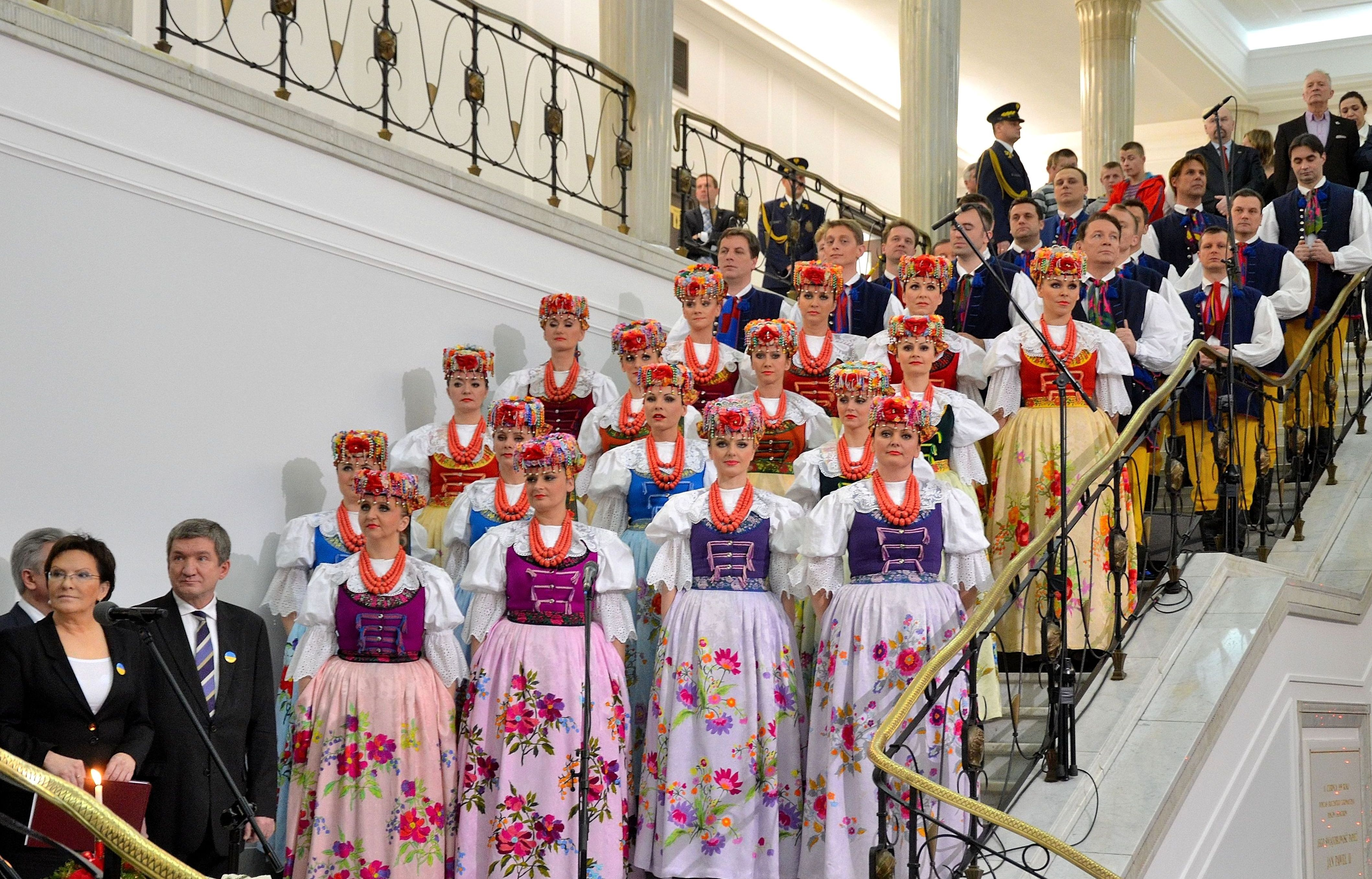 Śląsk Song and Dance Ensemble during Christmas meeting in the Sejm